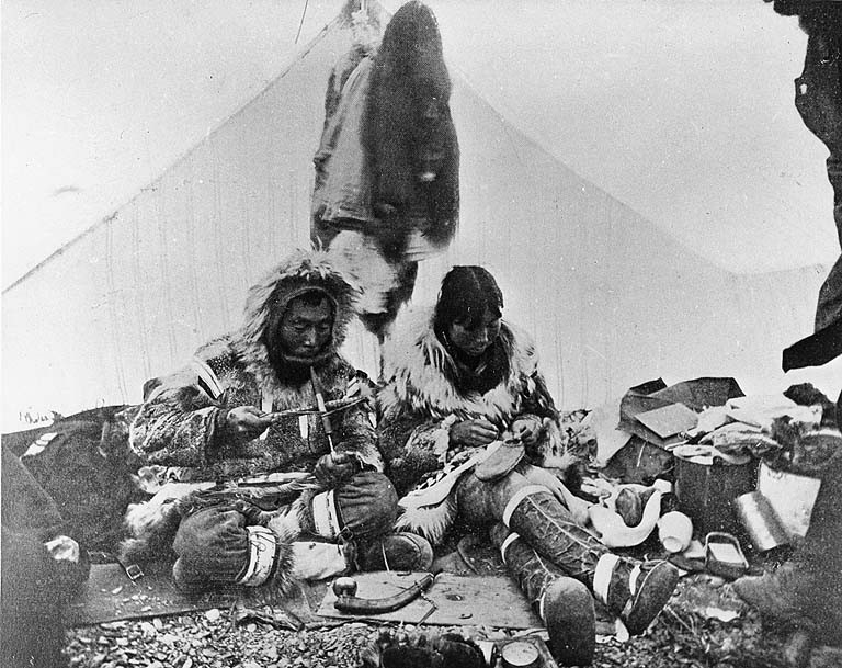 Shows Eskimo man and woman working inside tent. Subjects (LCTGM): Ivory carving--Alaska--Port Clarence Subjects (LCSH): Eskimos--Alaska--Port Clarence